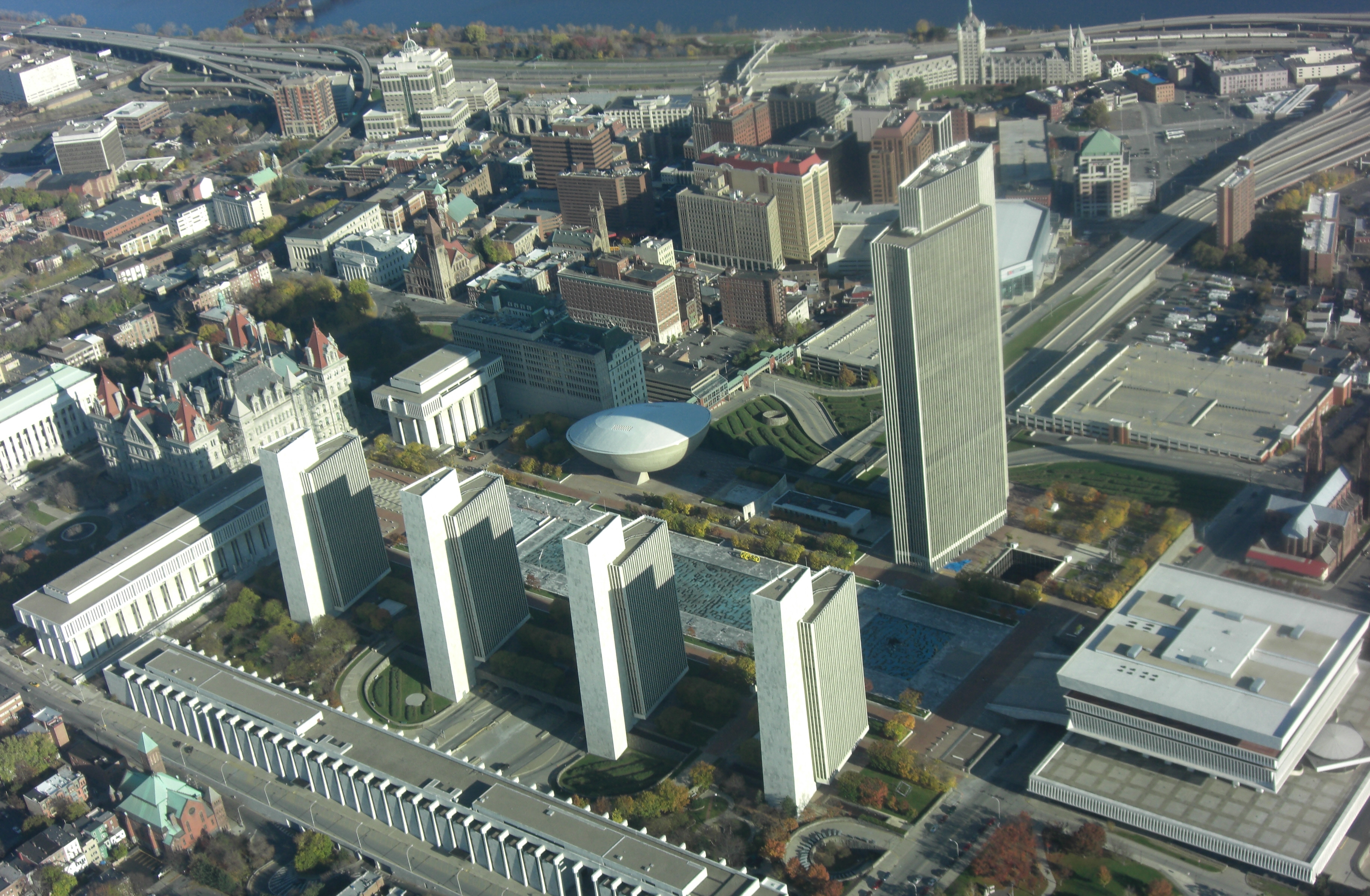 Aerial Shot of the Empire State Plaza